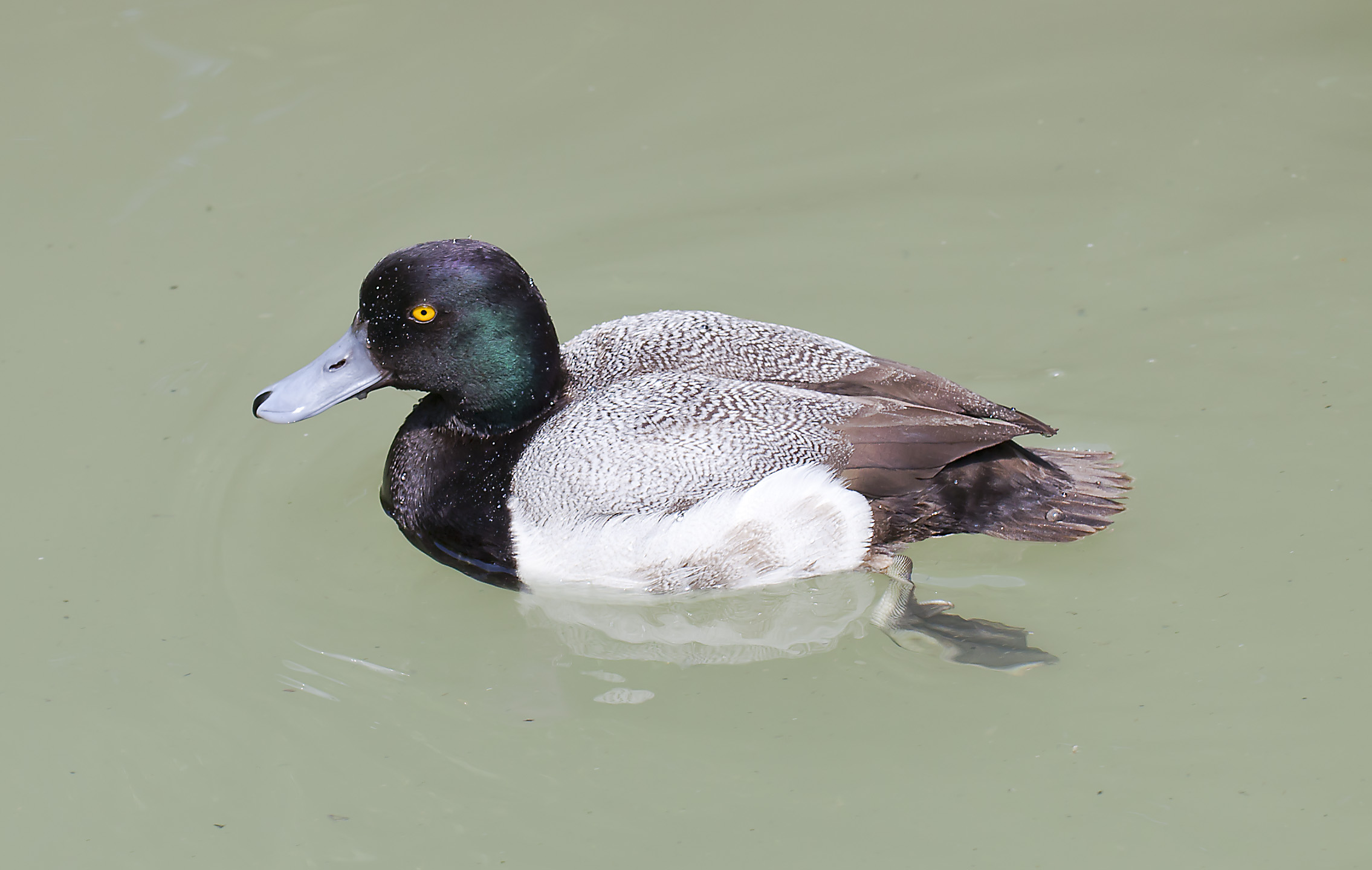 Greater Scaup (Aythya marila), Tierpark Hellabrunn, Munich, Germany